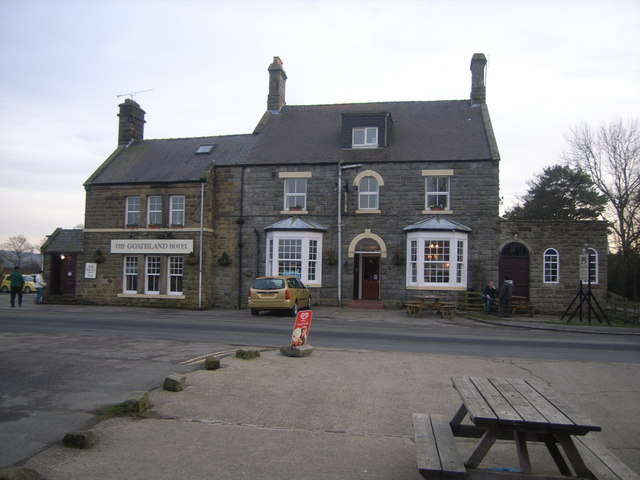 The Goathland Hotel (Aidensfield Arms) Goathland is the village which takes on the fictional name of Aidensfield in the nostalgic police series Heartbeat.